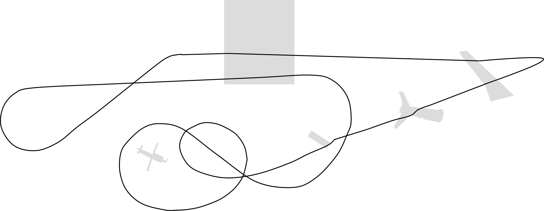 Layout for The Swarm at Thorpe Park